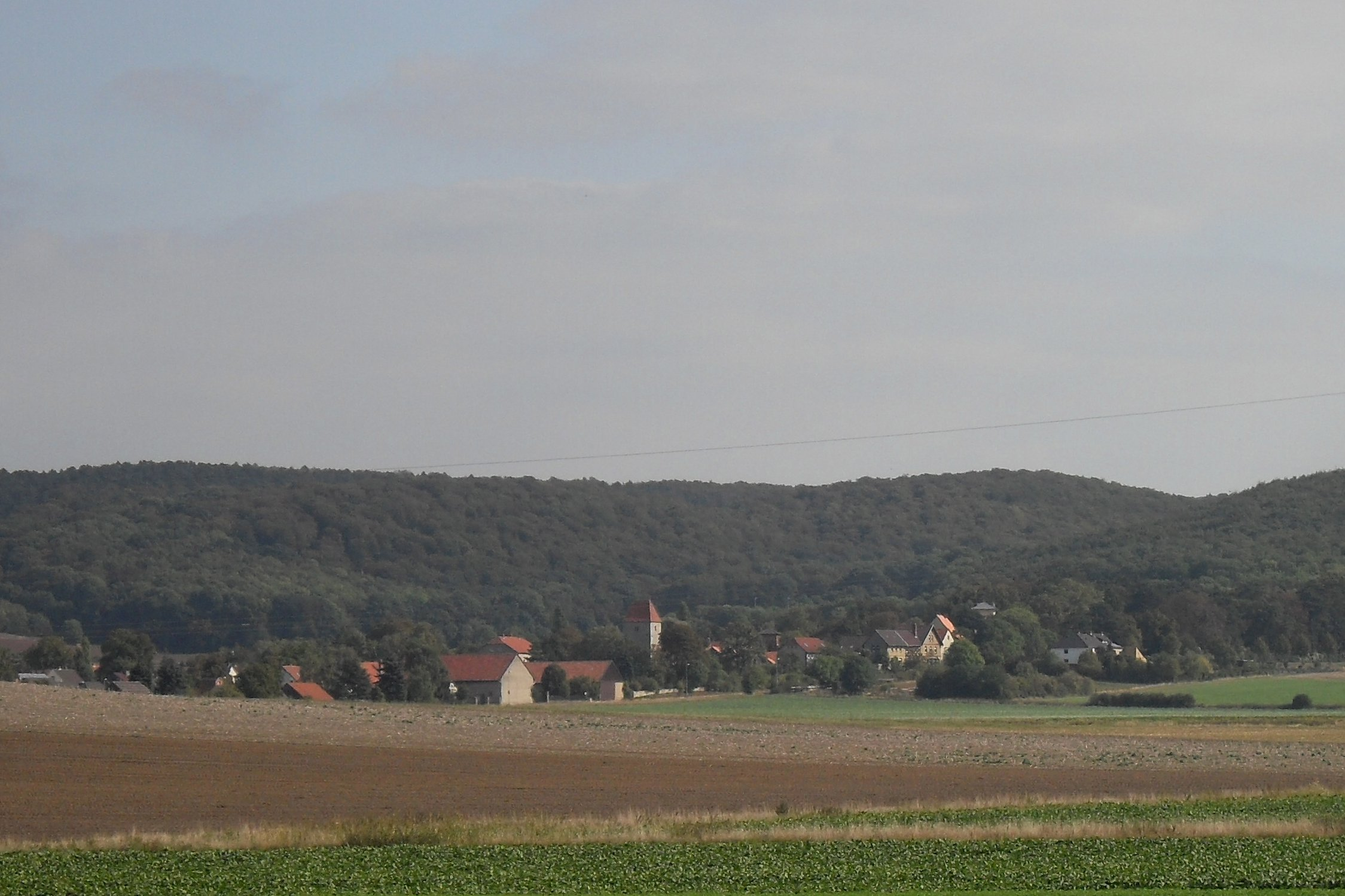 View on Groß Denkte from Klein Denkte